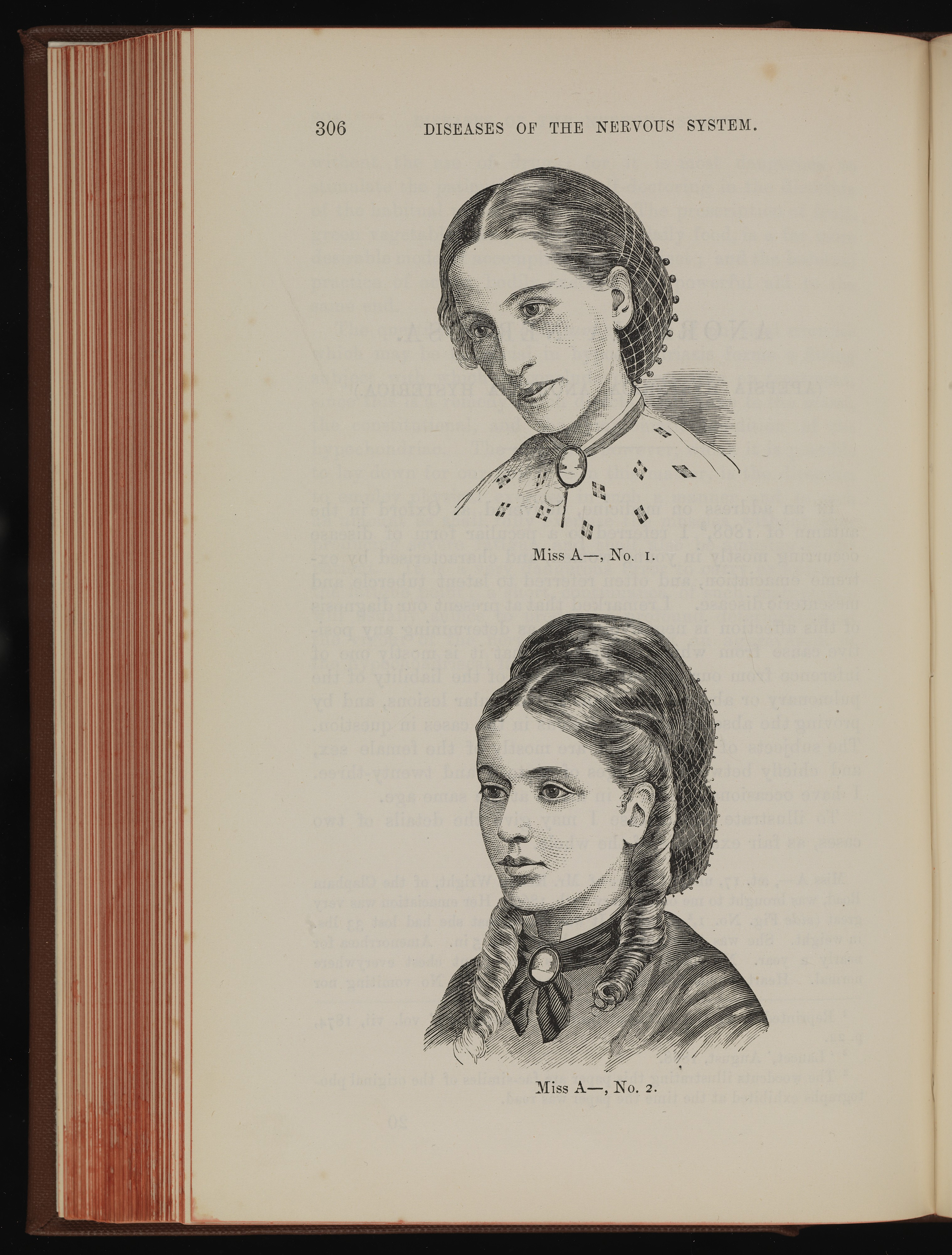 From 'Anorexia Nervosa (Apepsia Hysterica, Anorexia Hysterica)' by William Withey Gull, M.D. General Collections Keywords: Medicine; Vivisection